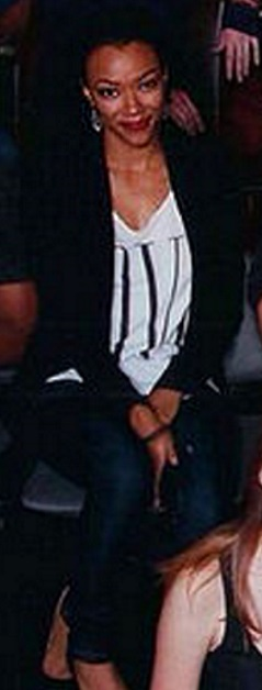 Sonequa Martin-Green at Walker Stalker Con 2013